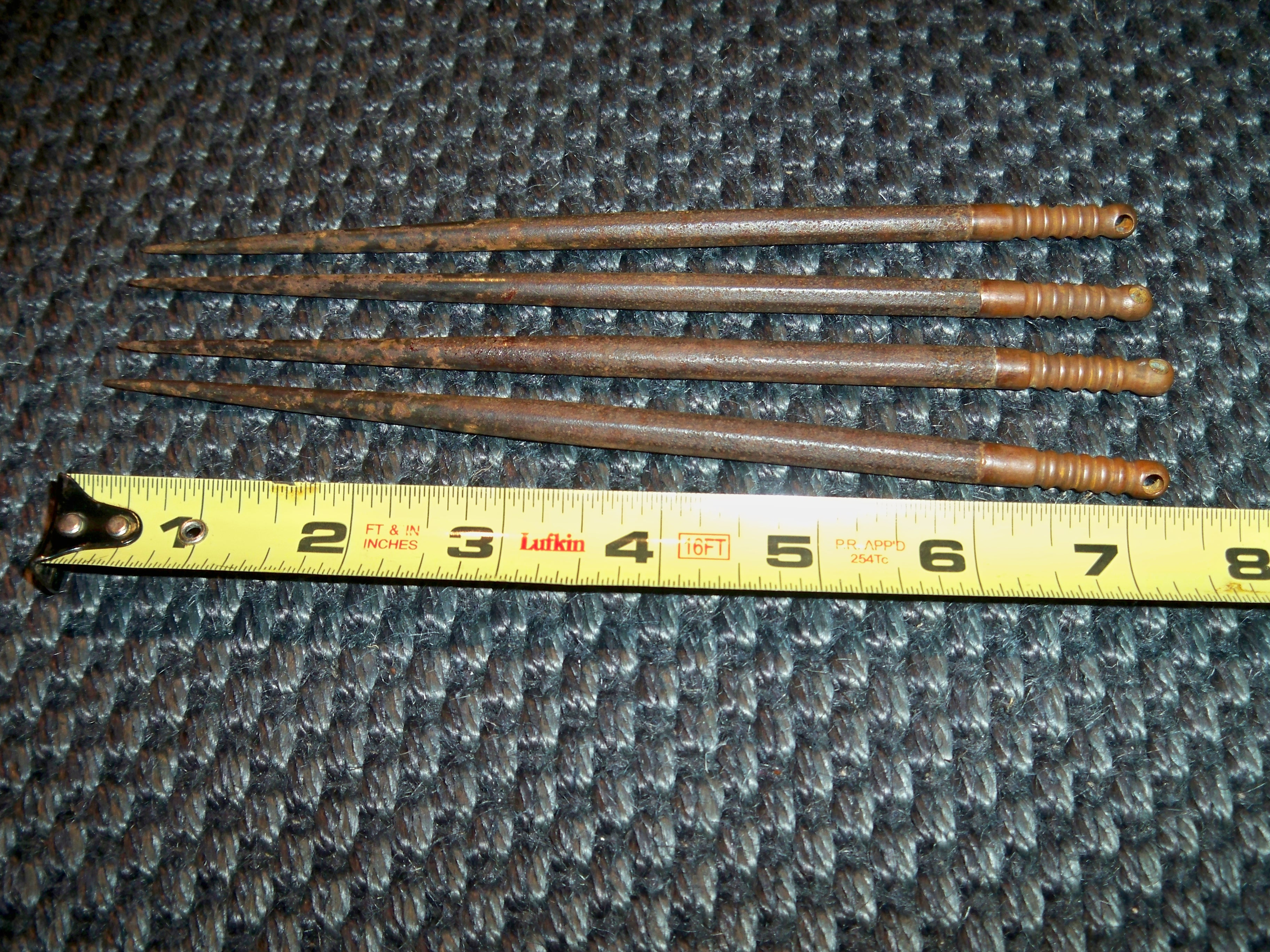 Japanese shuriken or sword hidden in the hand, these could be senbon or bo shuriken